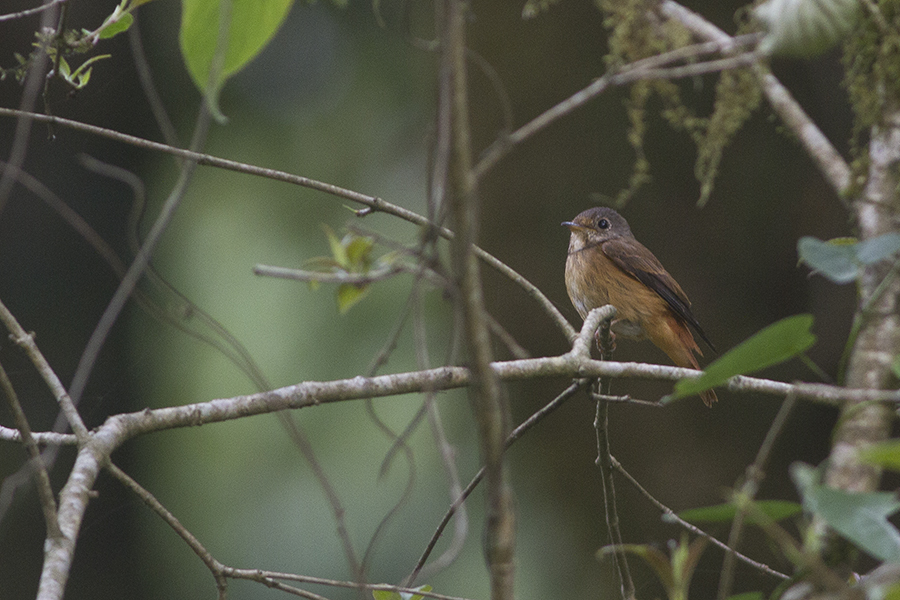 The species Ferruginous Flycatcher had been photographed from Khangchendzonga National Park in West Sikkim, India on 26.04.2016.